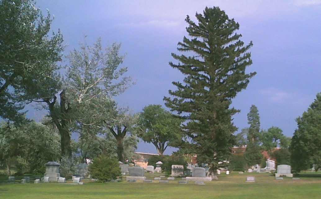 Home of Peace Cemetery, Helena, Montana. Helena's historic Jewish cemetery on the National Register of Historic Places. Capital High School is the brick building visible in the background